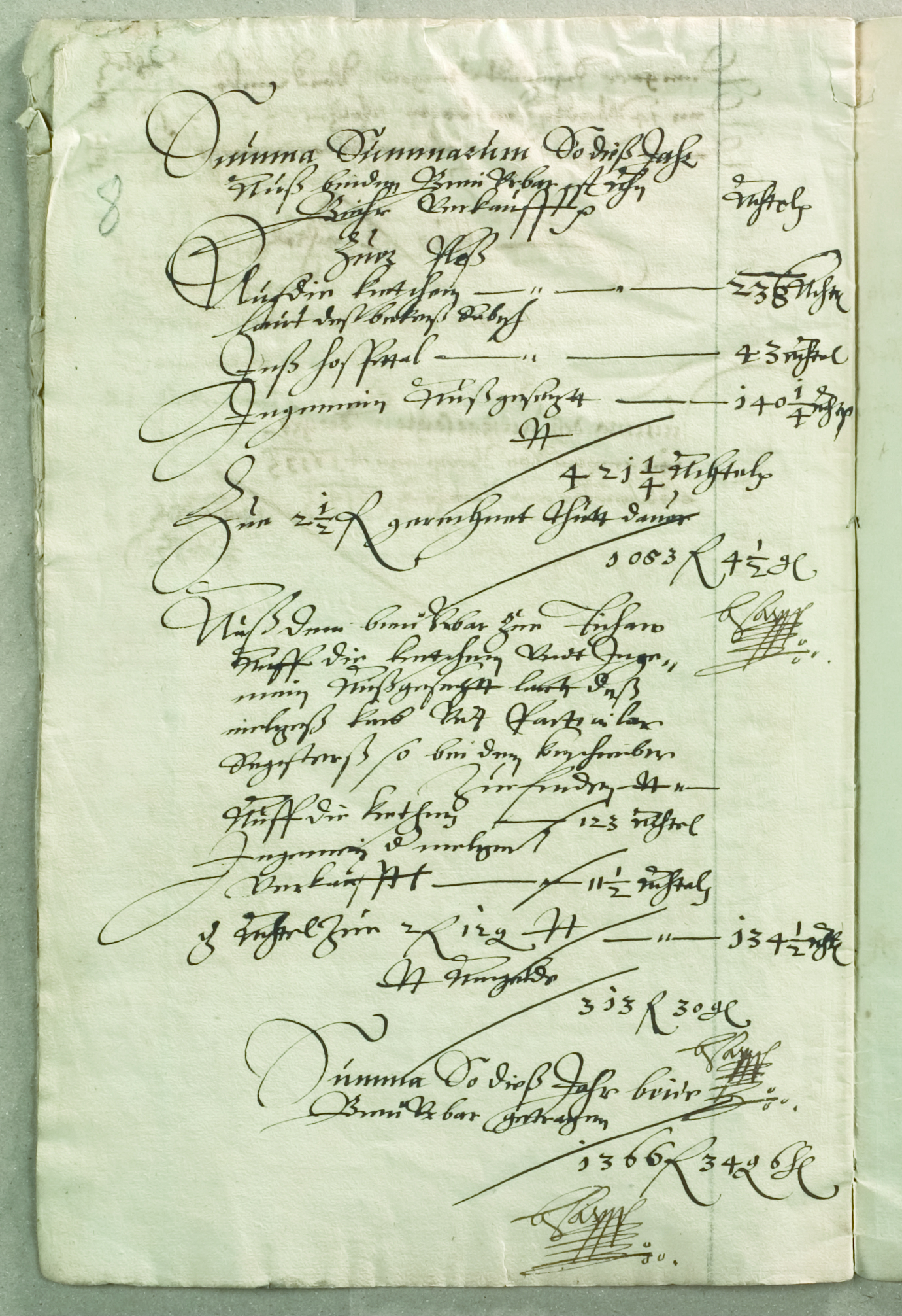 Dokument potwierdzający 400 letnią historię browarnictwa w Polsce